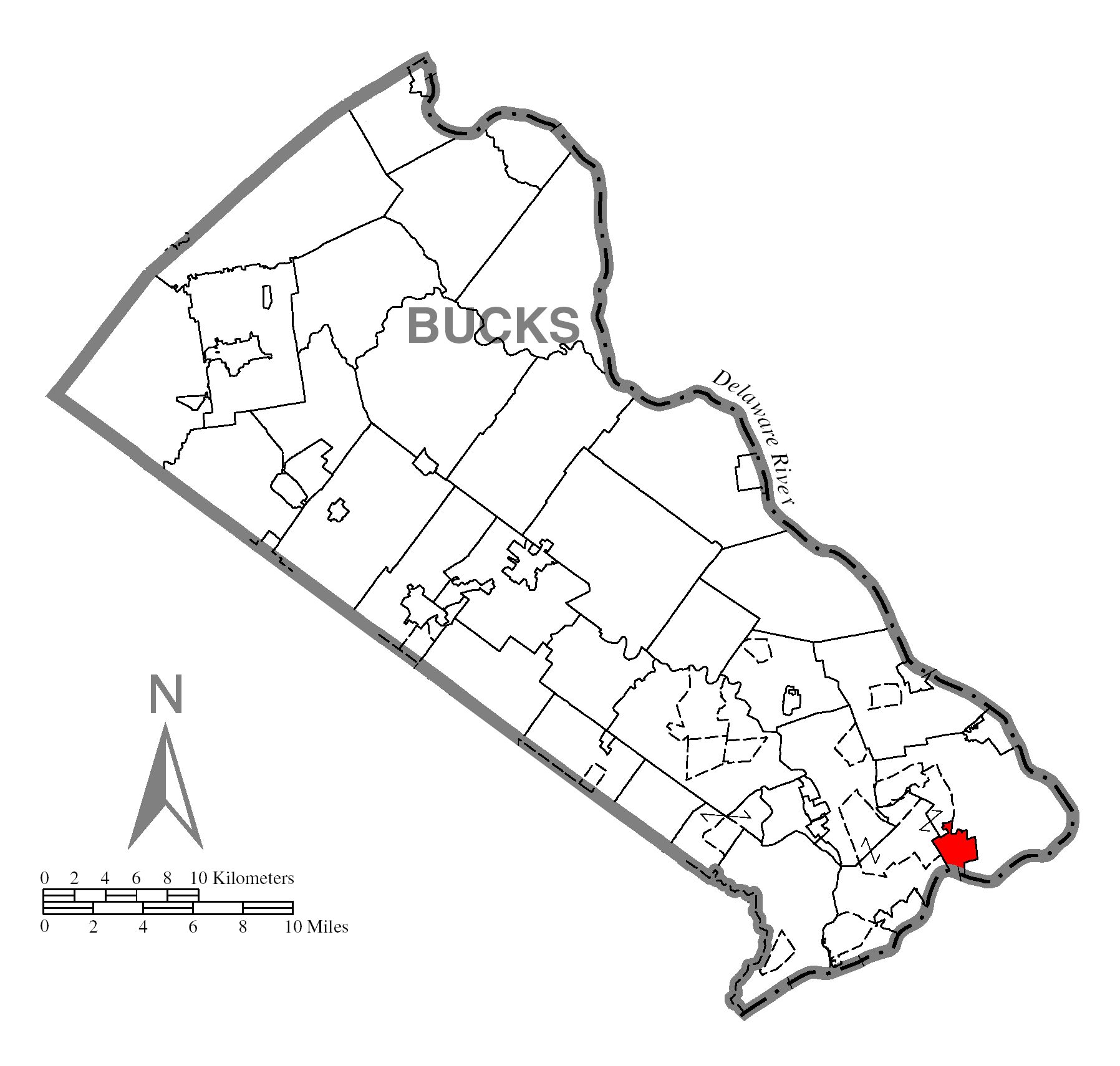 A map of Bucks County showing Tullytown, Pennsylvania (alternate) highlighted on the map.